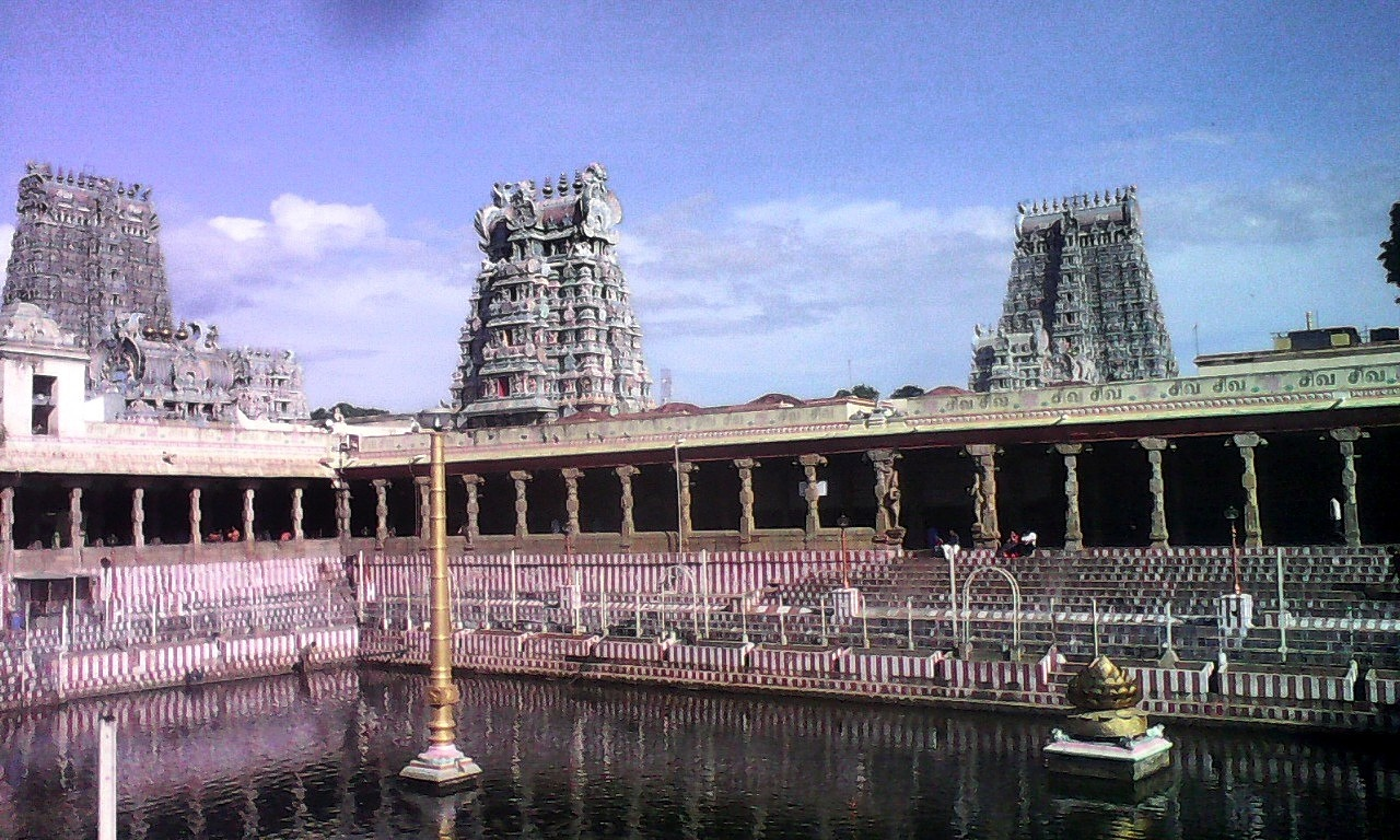 Madurai Meenakshi Temple